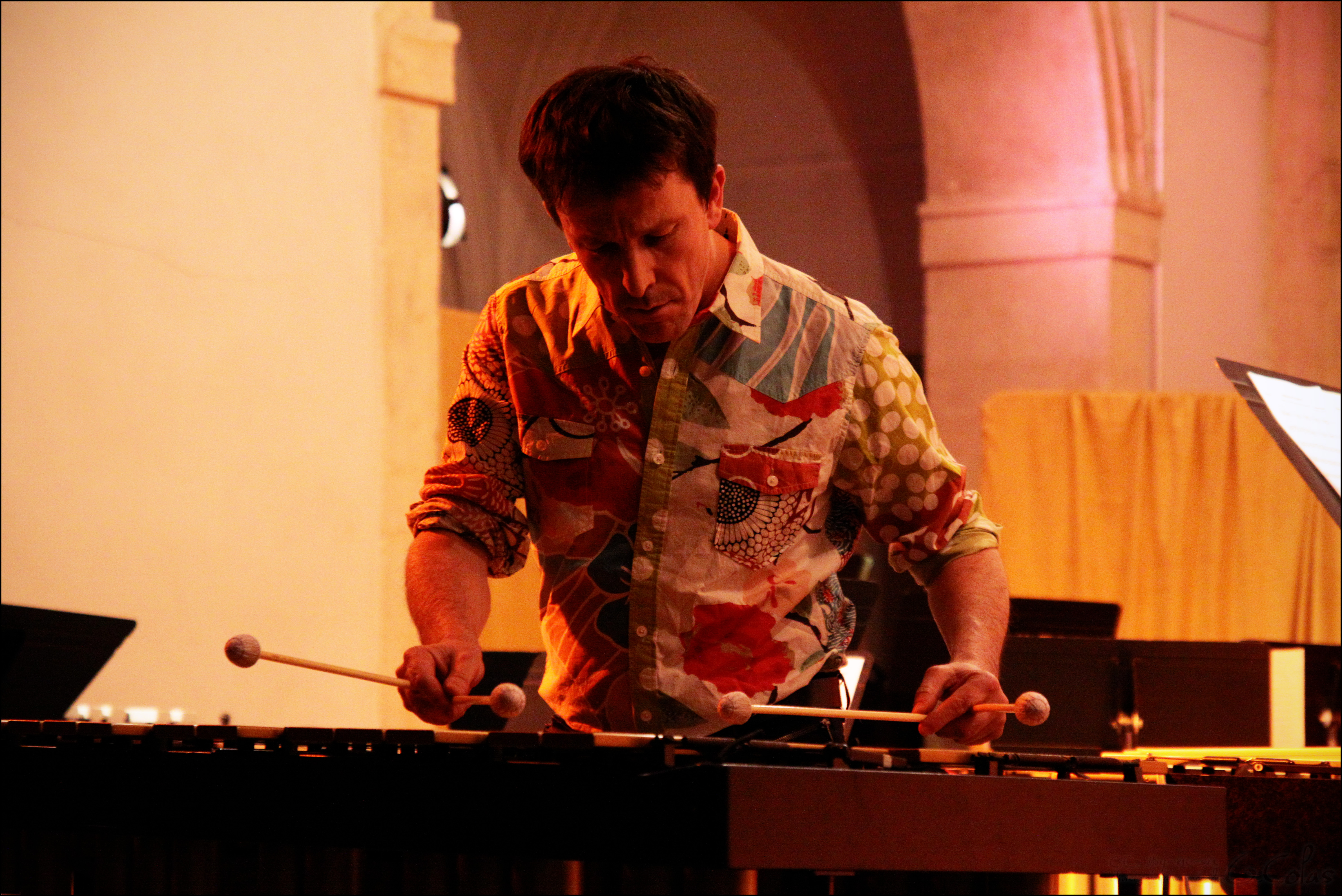 Franck Tortiller